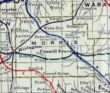 Stouffer's Railroad Map of Kansas, 1915-1918, Morris County.